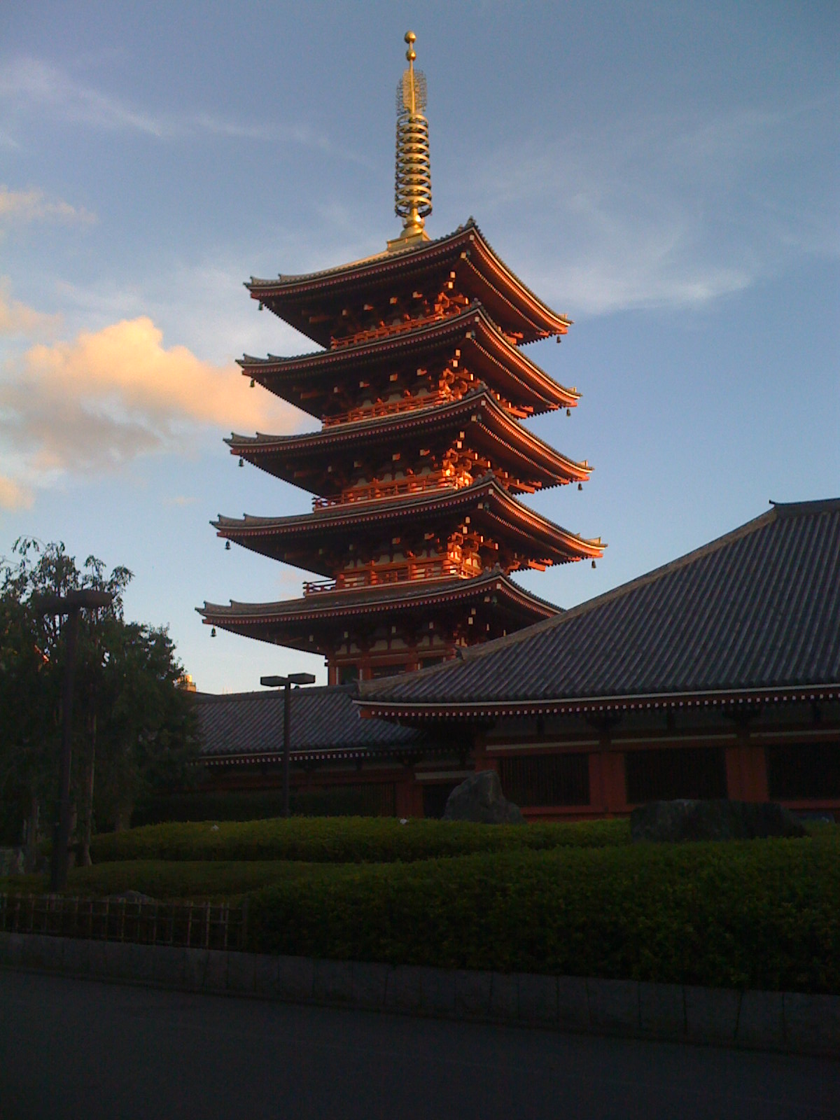 Senso-ji_pagoda